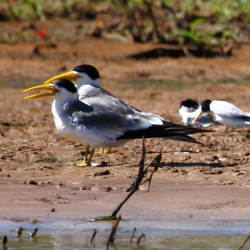 Large-billed Tern at Cuiabá river - MT - Brazil